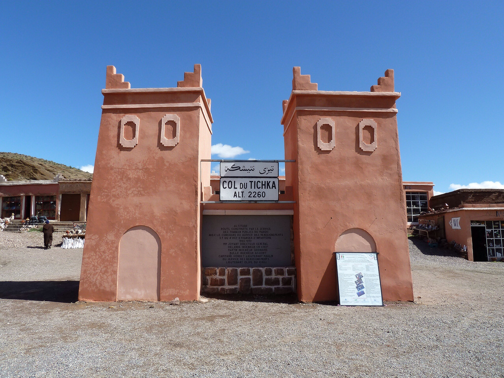 After some awesome twisties, reached the highest point of the pass and had some chicken brochettes before the weather turned really cold and we headed back.